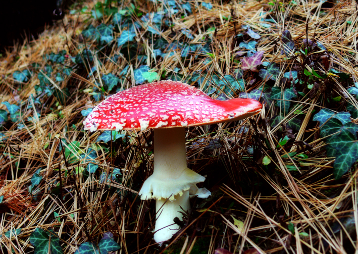 Amanita Muscaria adult specimen